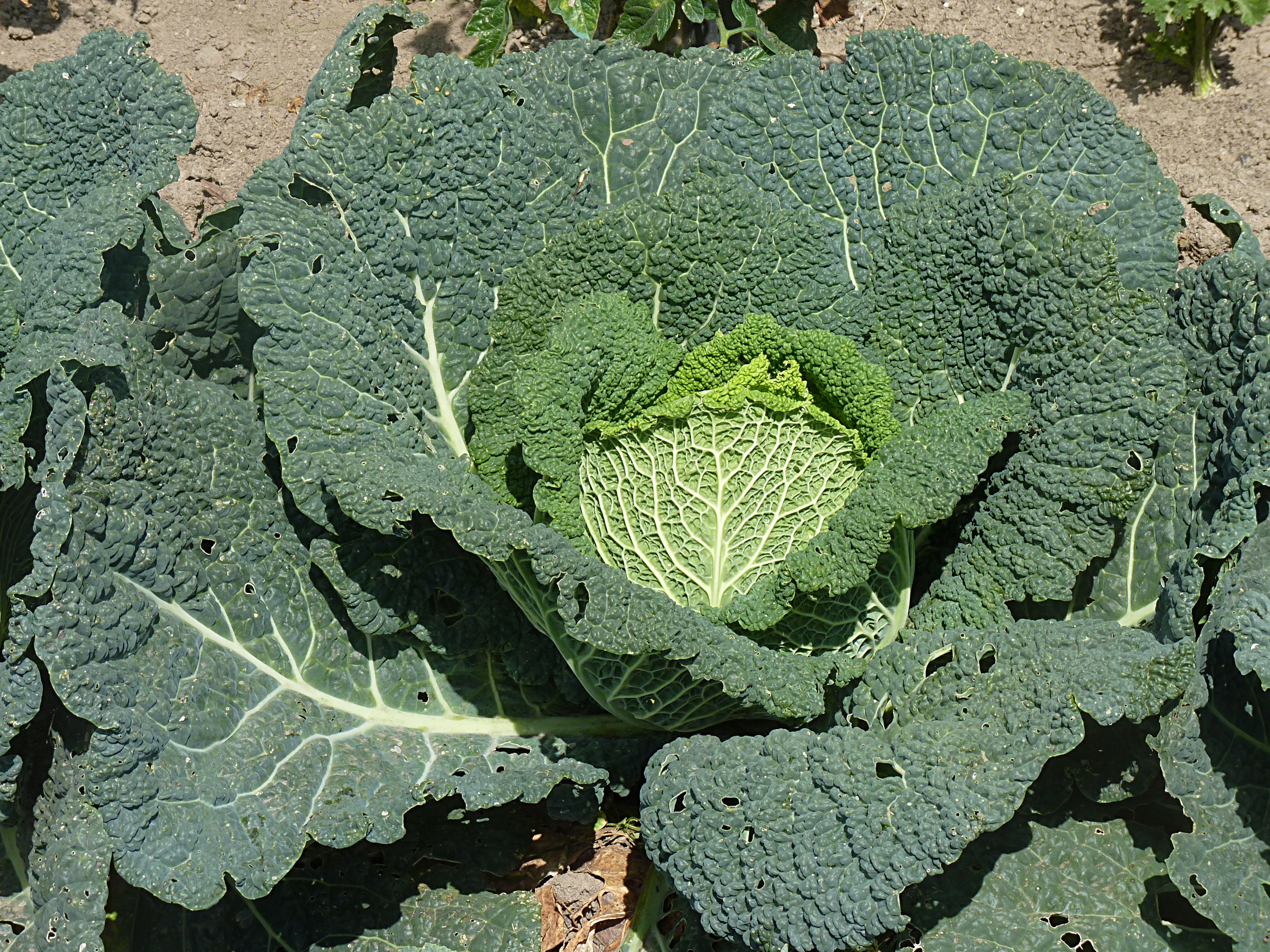 Savoy cabbage, in a vegetable garden in Belgium.